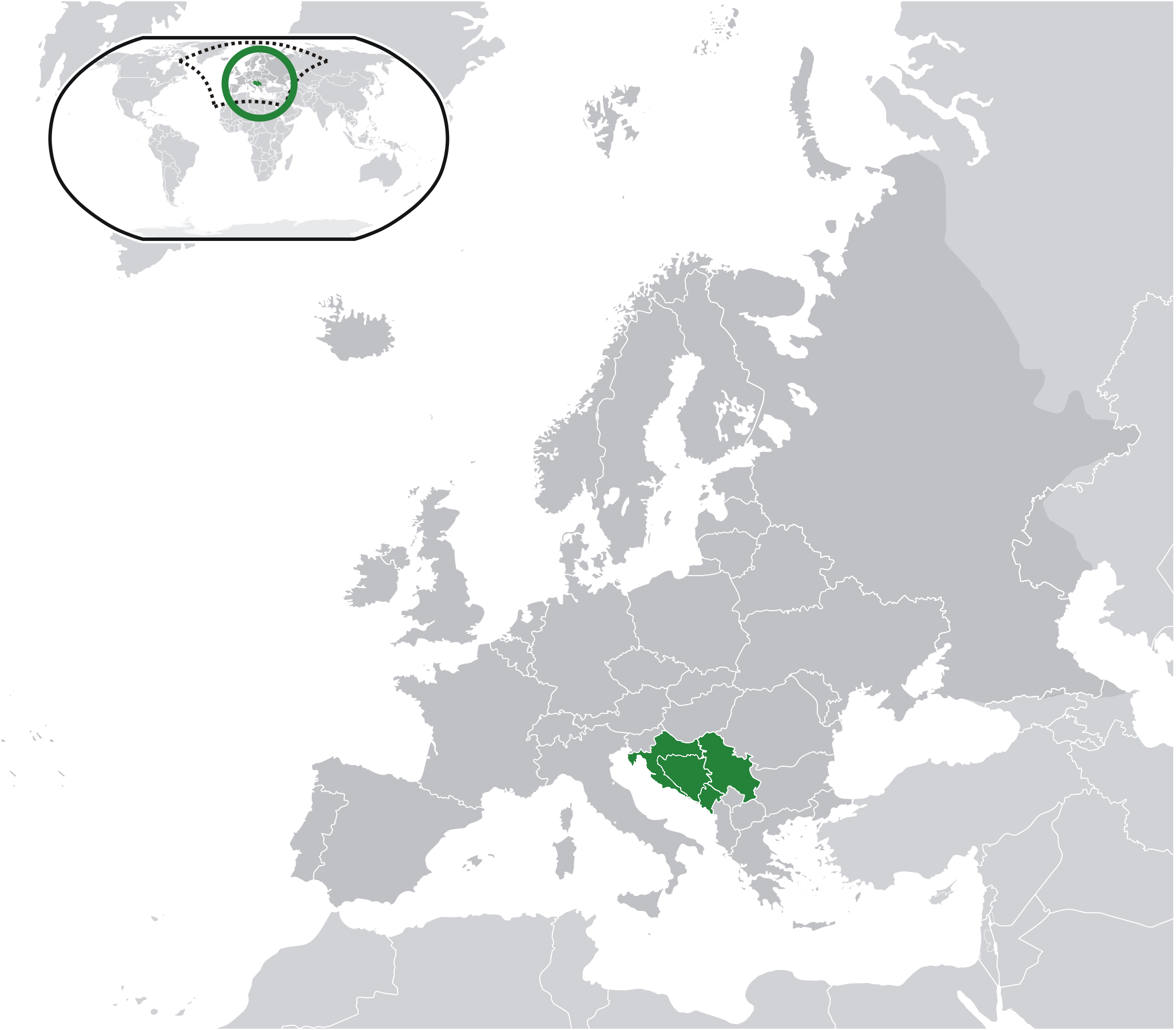 Republic of Yugoslavia